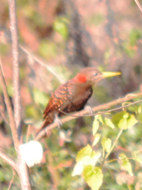 Bay Woodpecker Blythipicus pyrrhotis